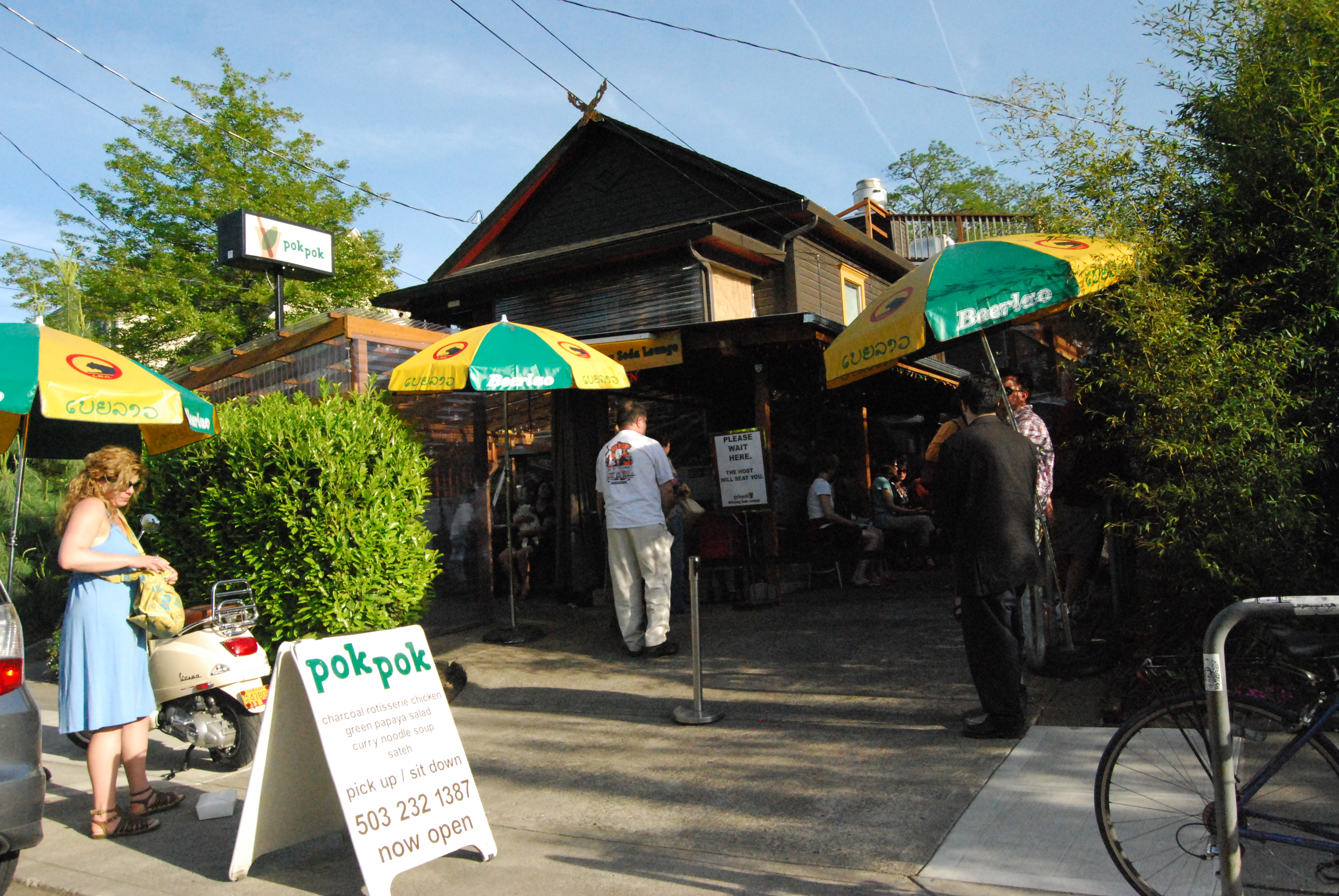 Pok Pok Thai restaurant in Portland, Oregon. The Oregonian restaurant of the year 2007.